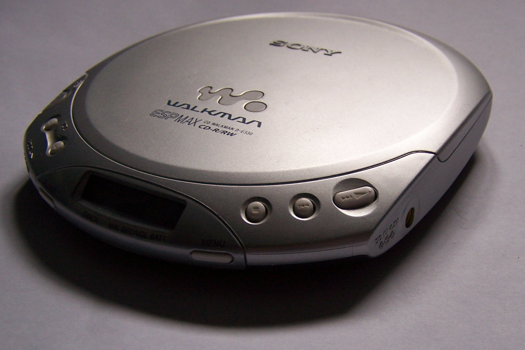 Silver Sony CD Walkman D-E330, taken from an angle.